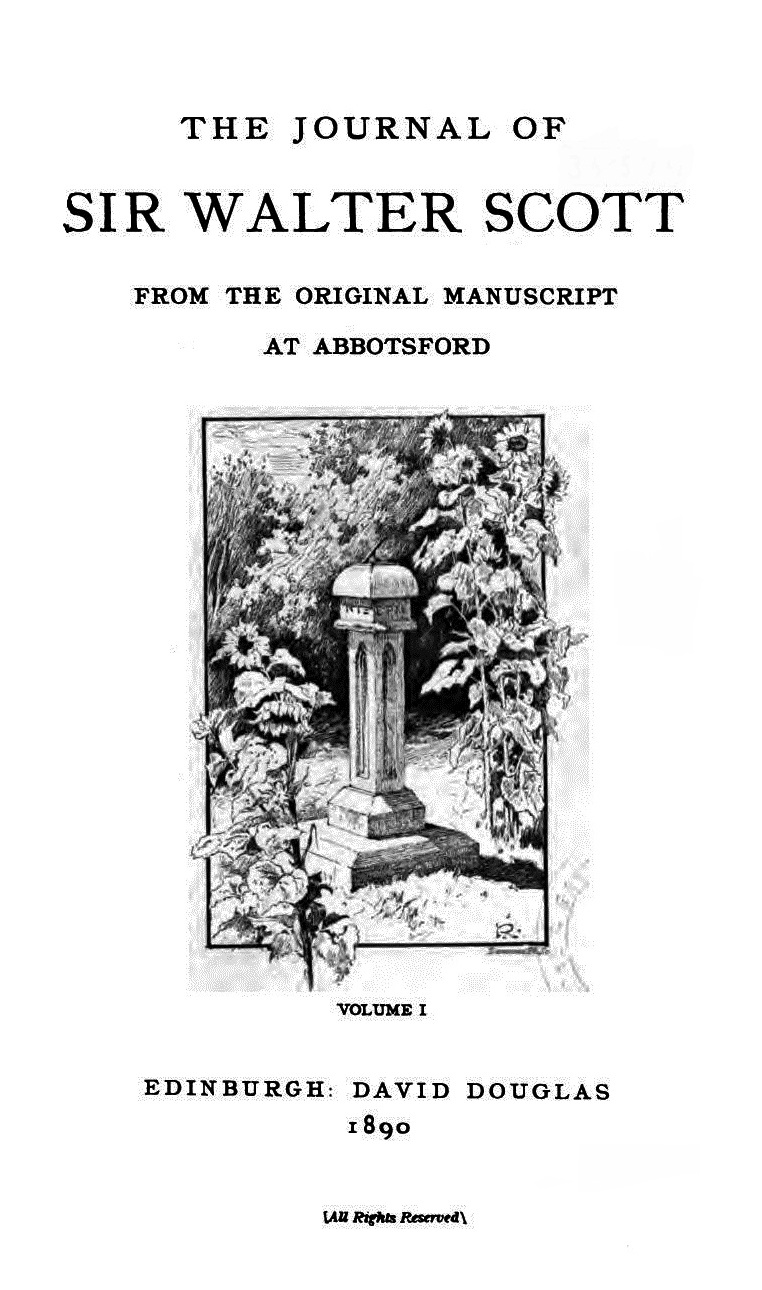 The Journal of Sir Walter Scott 1st ed